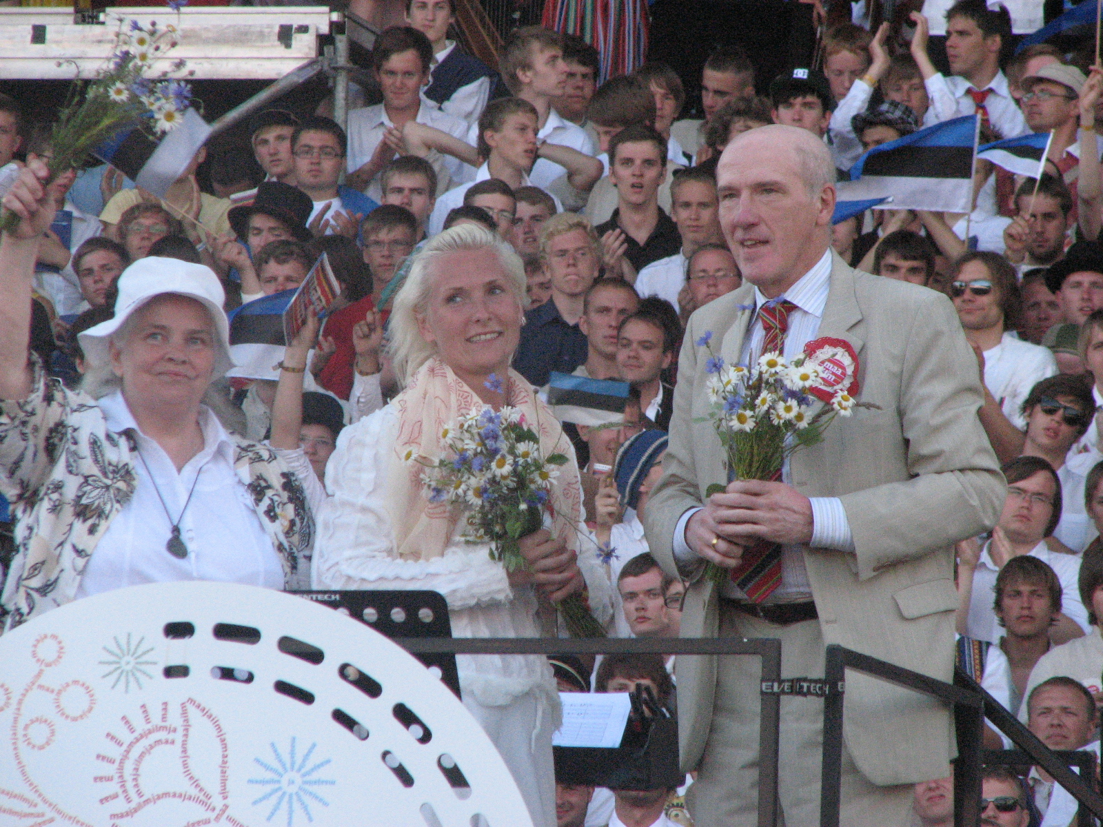 Viiu Härm, Veronika Portsmuth and Olav Ehala in XI noorte laulu- ja tantsupidu